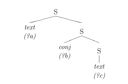 The structure matched by the pattern (S (?a) (S (?b) (S (?c) ) ) )